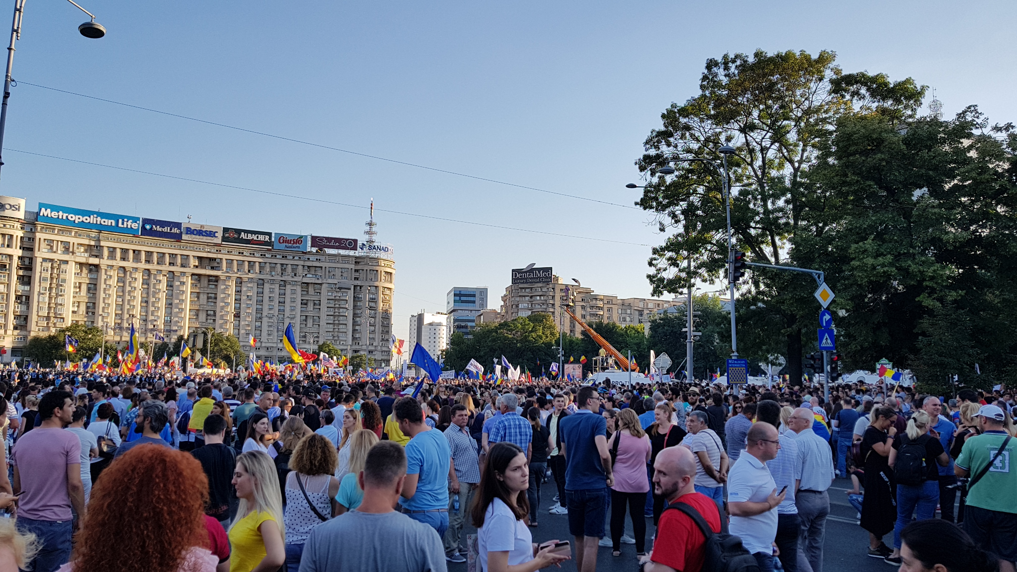 10 August -Protest against corruption, Bucharest 2018, Victory Square